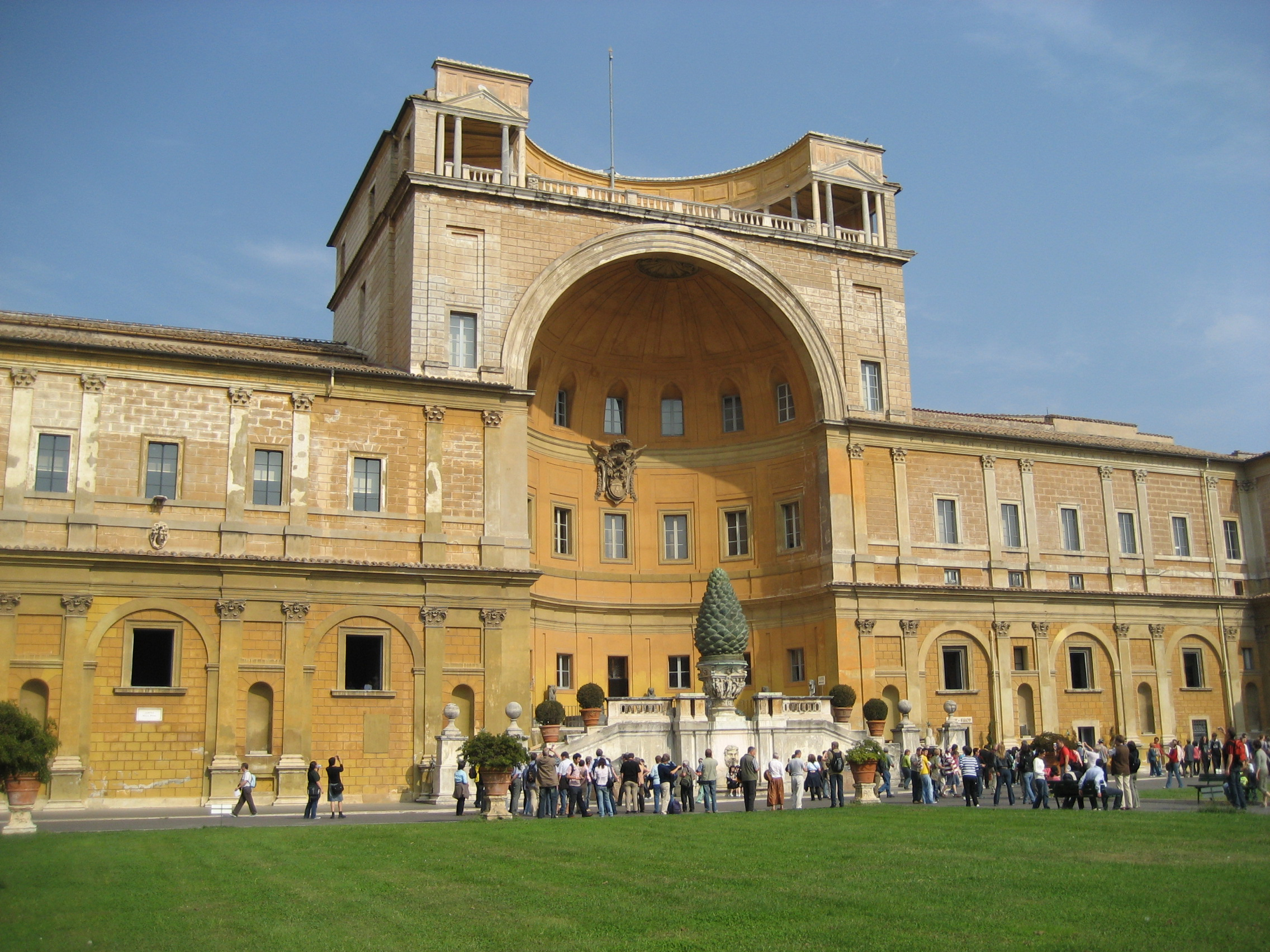 Vatican Museums Native nameMusei VaticaniLocationVatican CityCoordinates41° 54′ 23″ N, 12° 27′ 16″ E Established1506Web page control : Q182955 VIAF: 141443926 ISNI: 0000 0001 0807 3165 LCCN: n81003002 GND: 235092-0 SUDOC: 032013795 WorldCat institution QS:P195,Q182955 Courtyard